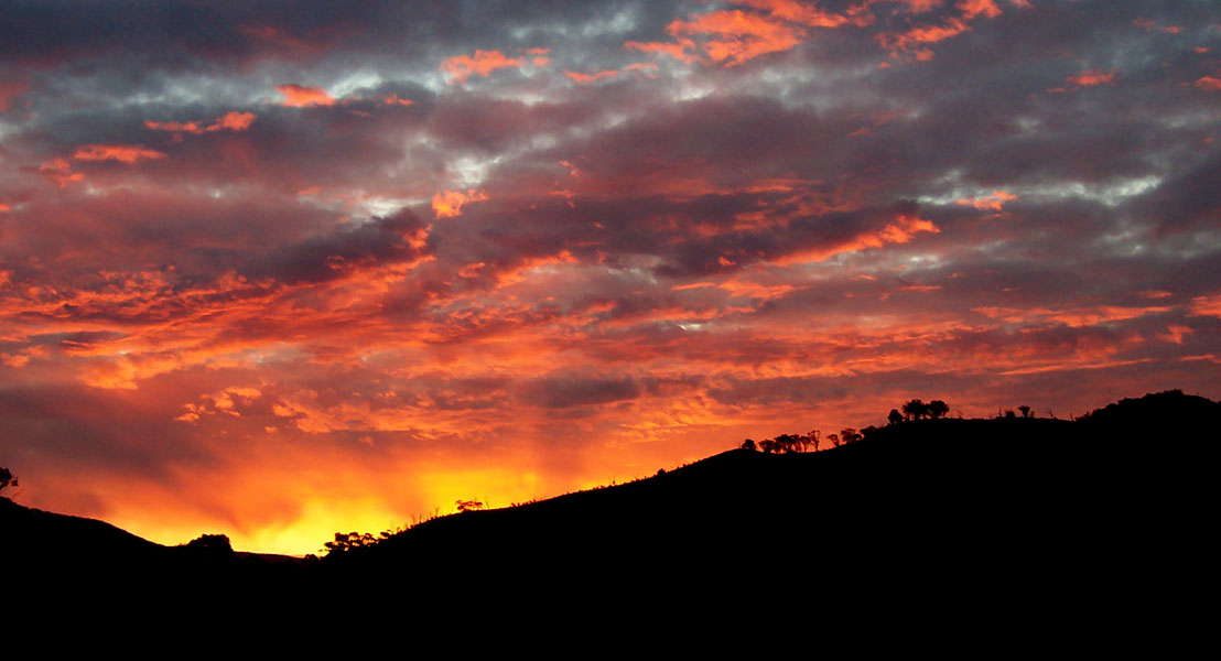 A red sunset near Swifts Creek, Australia.